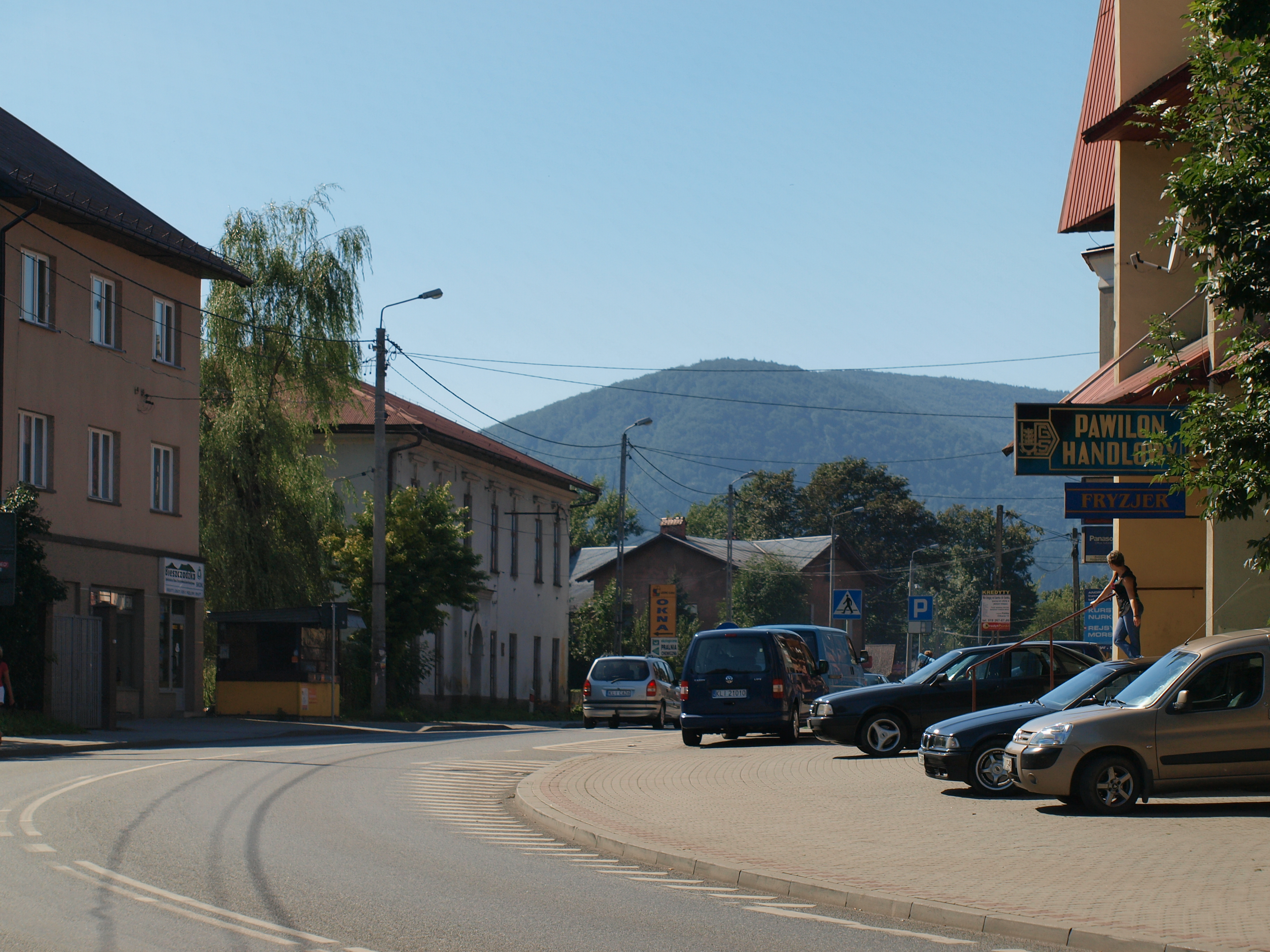 Mszana Dolna, St. Maximilian Maria Kolbe